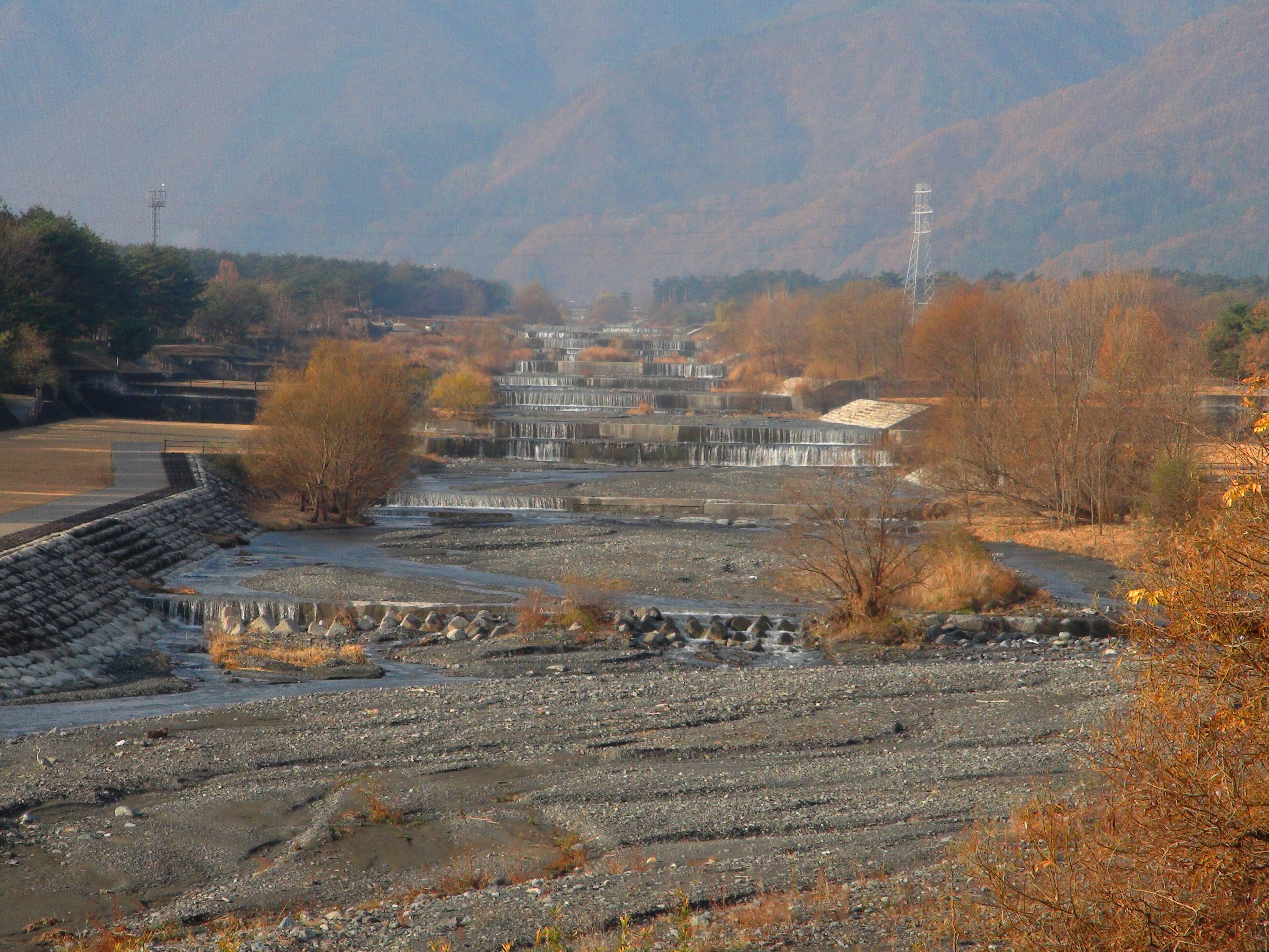 Midai river erosion control dike